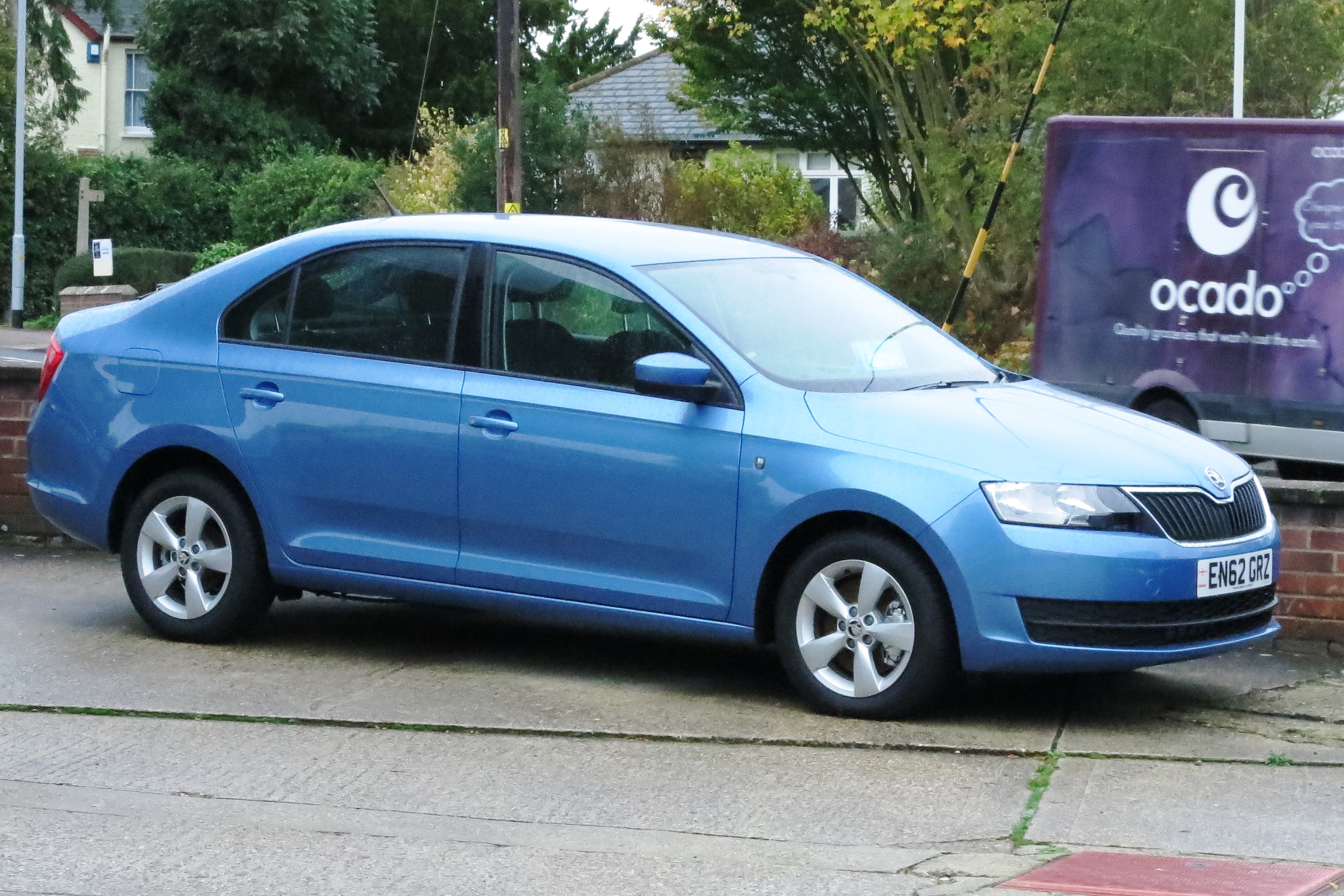 Skoda Rapid diesel (2013) in Writtle